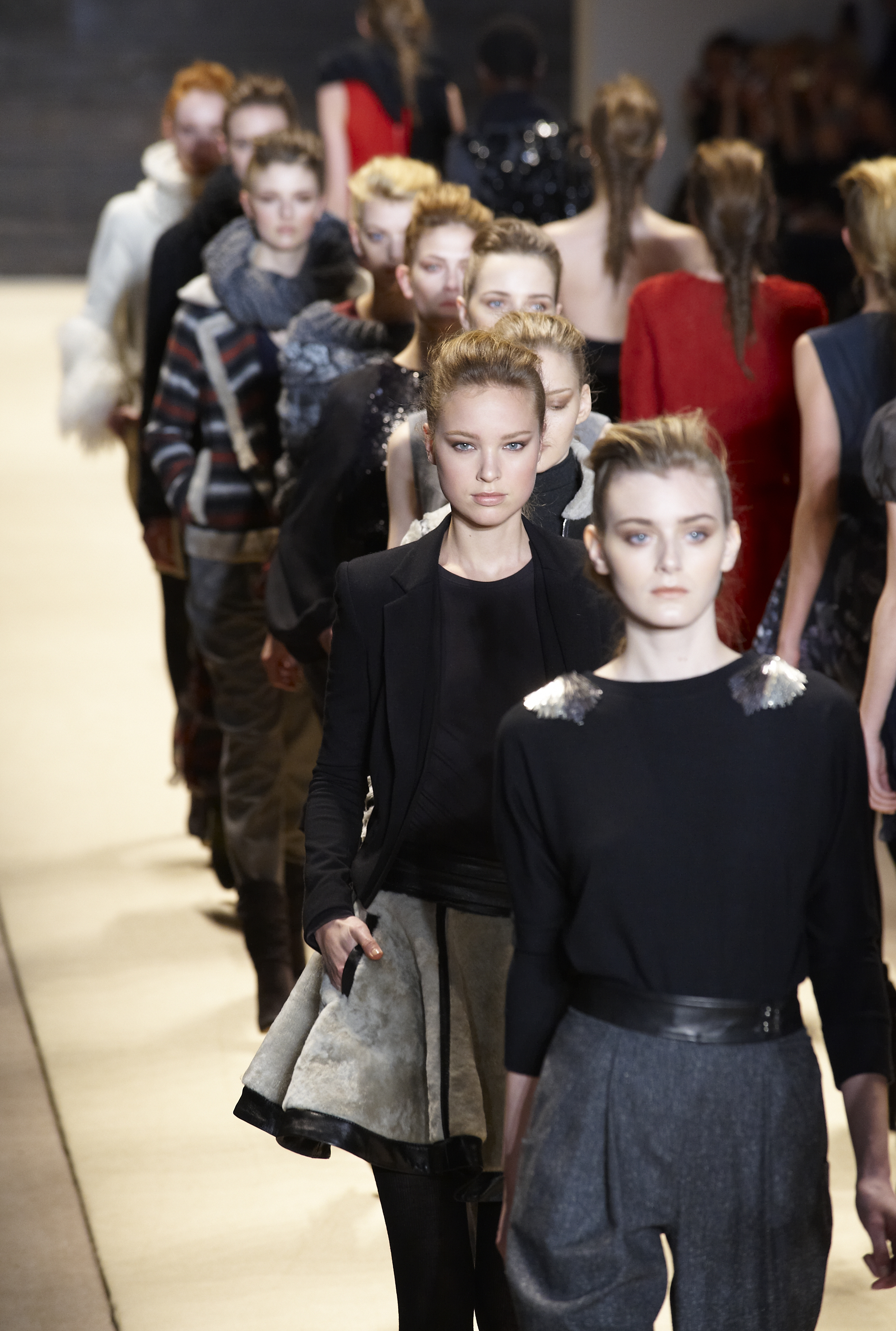 Models take to the runway at the conclusion of the ADAM Fall/Winter 2010 show at New York Fashion Week, February 2010.